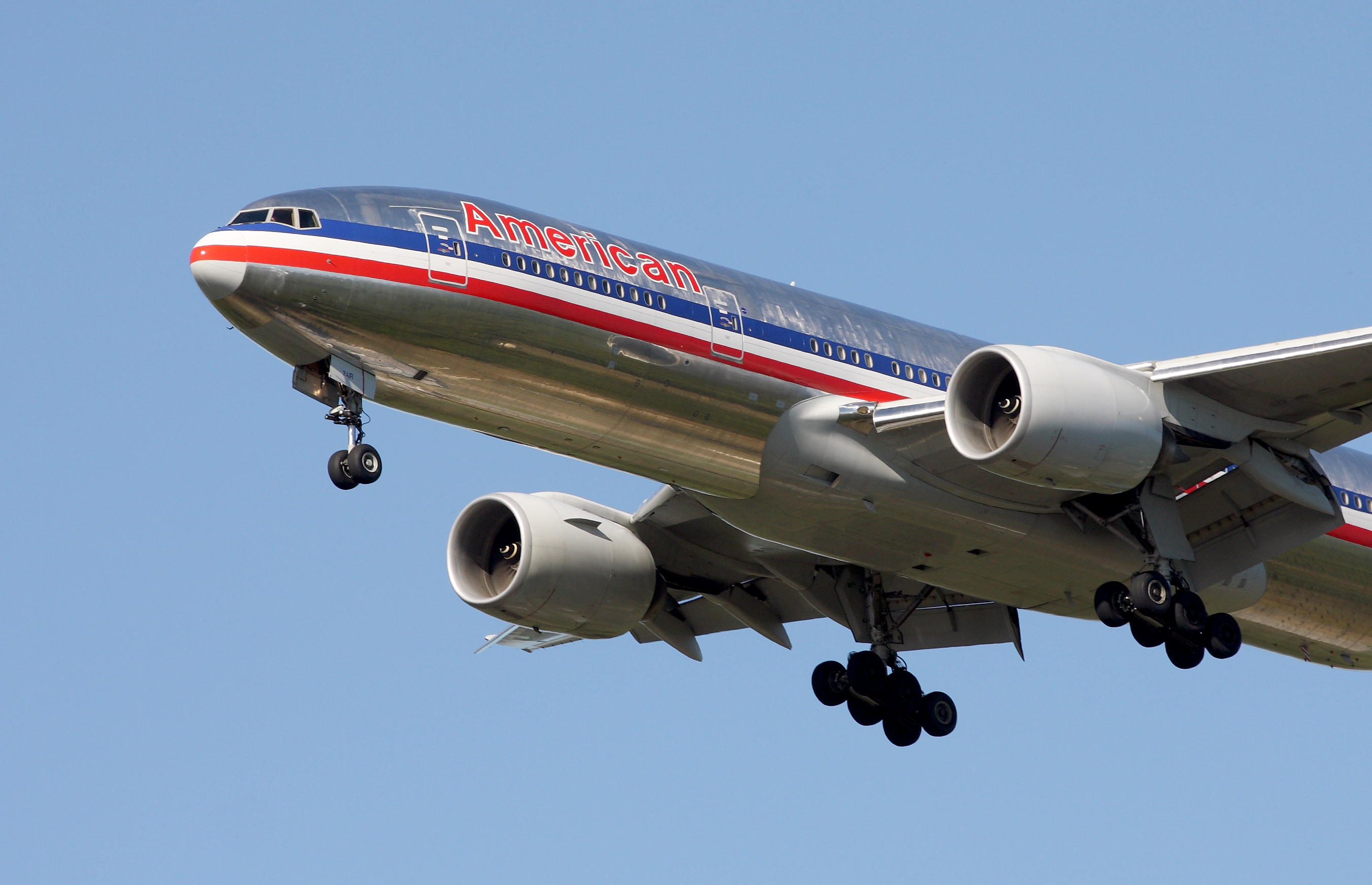 American Airlines Boeing 777-223ER in February 2009.